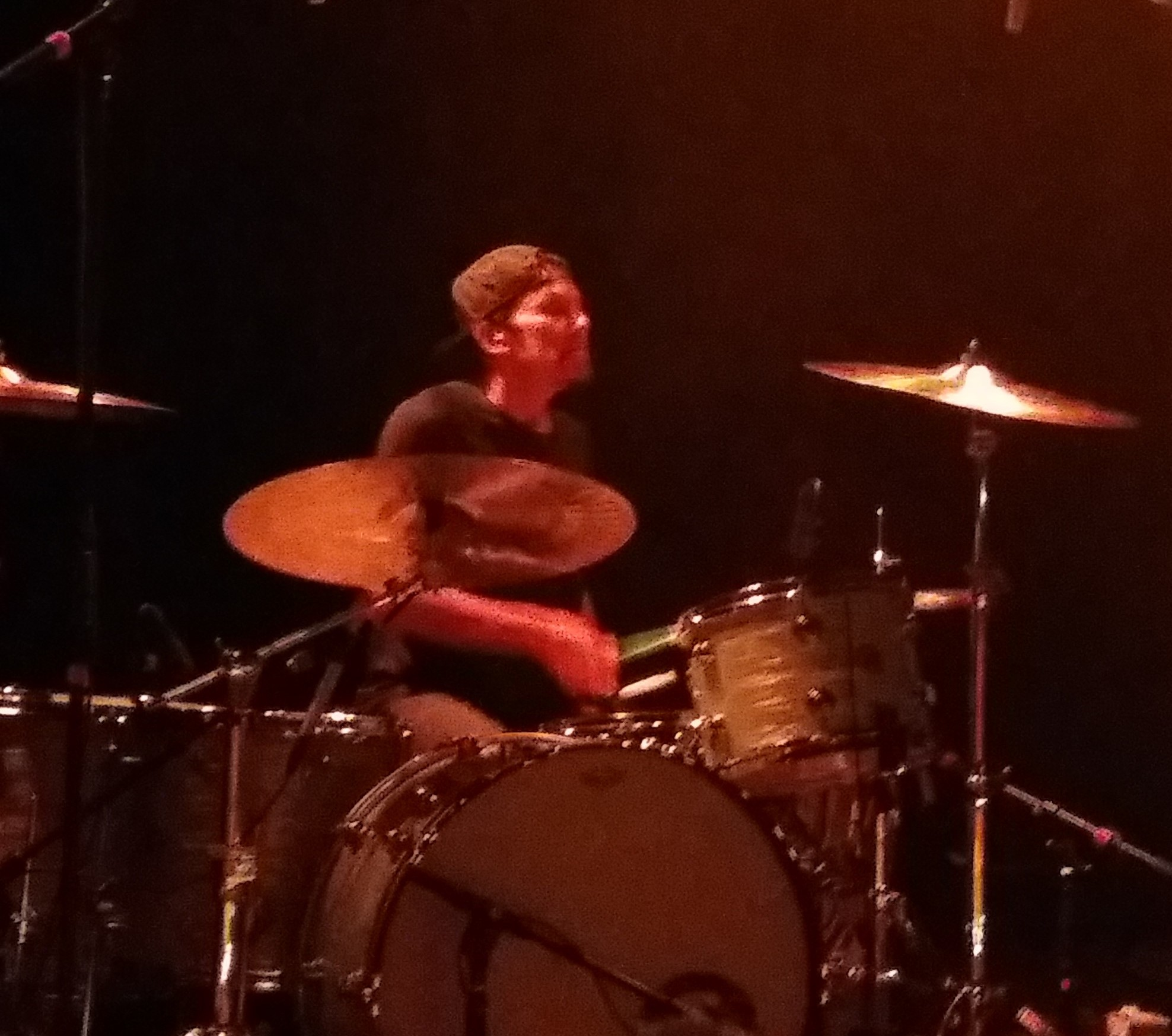 buckethead concert, denver, co 9/23/17